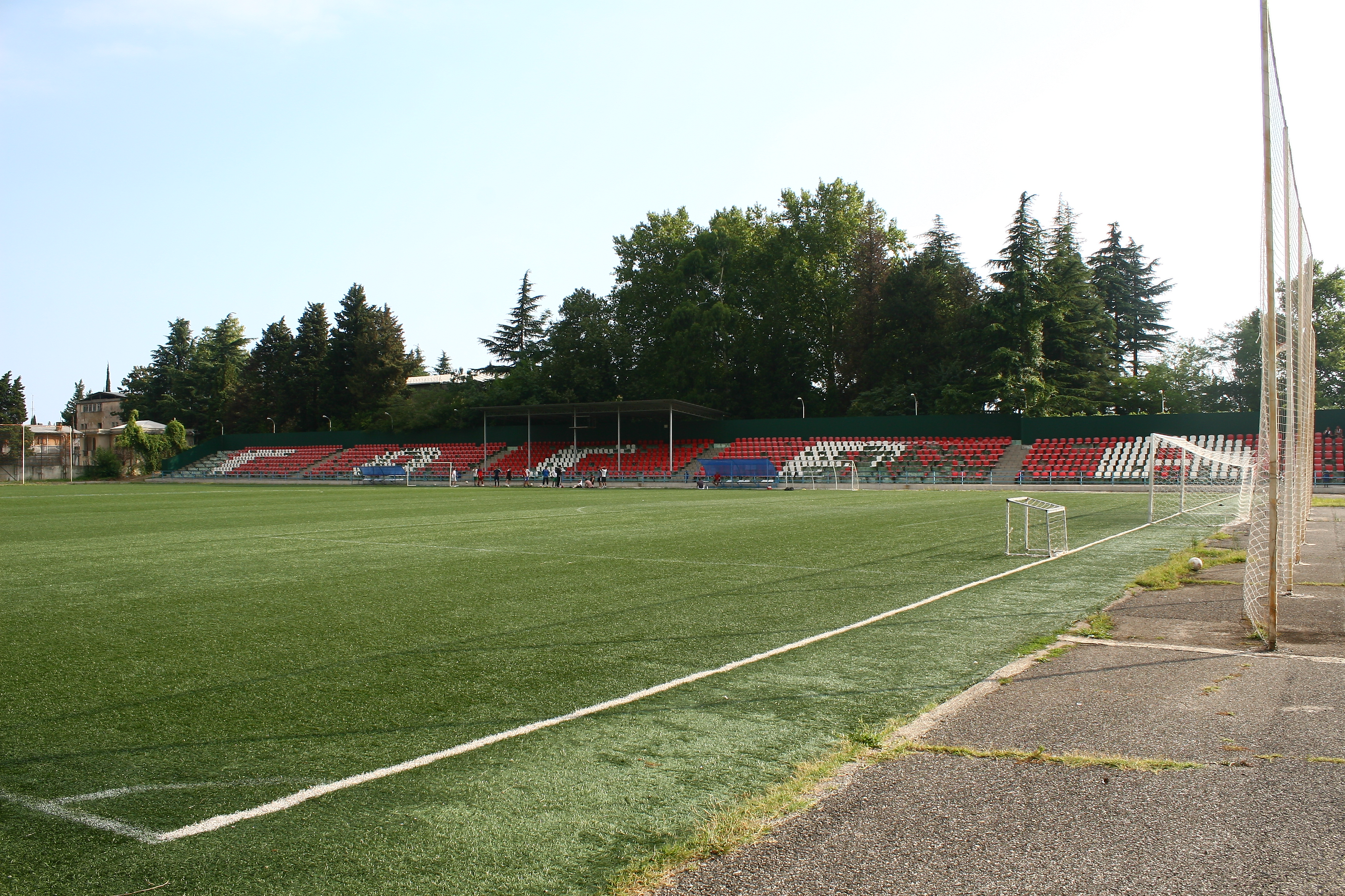 Photo of the main grandstand and the only one in the stadium named Daura Ahvlediani.